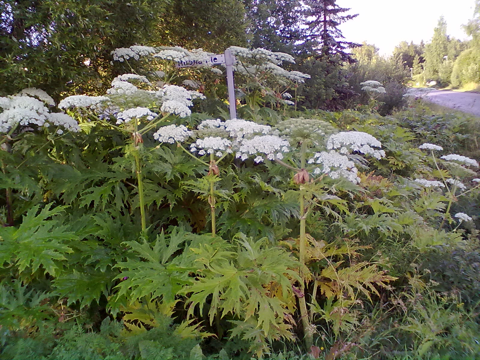 large area infested by Heracleum mantegazzianum